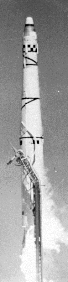 Unsuccessful launch of the Thor Agena A rocket with the Discoverer 4 satellite (Corona KH-1 type), 25 June 1959.